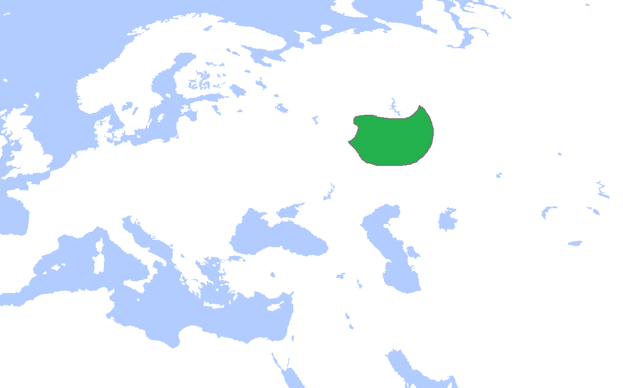 Locator map of the Kazan Khanate, c. 1500. (Partially based on Atlas of World History (2007) - The World 1400-1500, map)